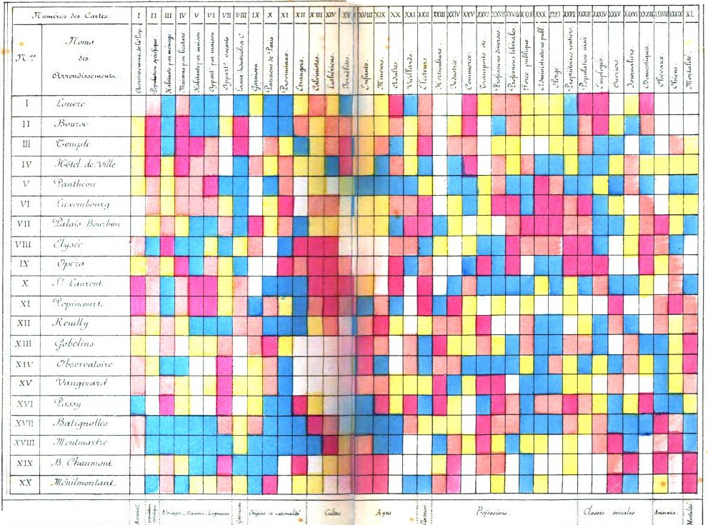 Shaded matrix display from Loua (1873), showing the characteristics (e.g., national origin, professions, age) of Paris districts, using a color scale ranging from white (low) through yellow and blue to red (high).